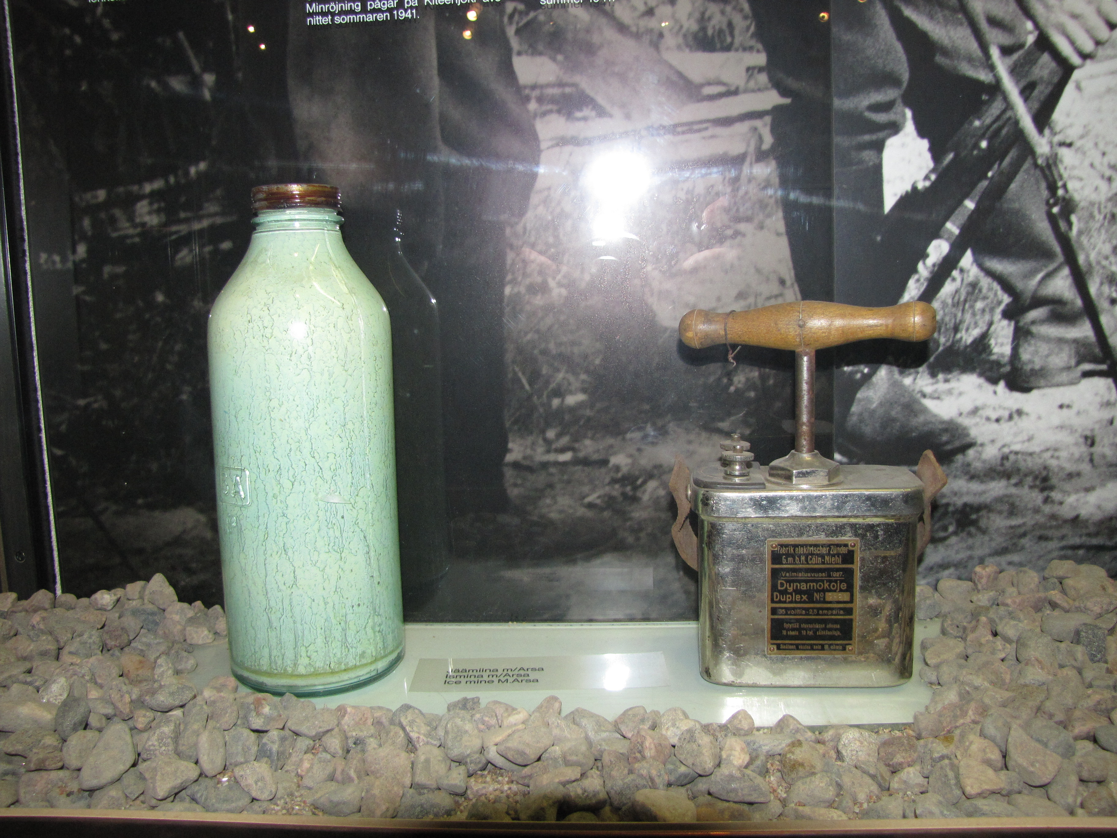 Finnish ice mine (jäämiina) m/41, also called m/ARSA after the designer A.R. Saloranta. Also sold to Germany and known as Flaschen-Eismine. Such explosive bombs were used in series to crack surface ice on bodies of water to block enemy movement. The German blasting machine at lower right was used to detonate electrical blasting caps.